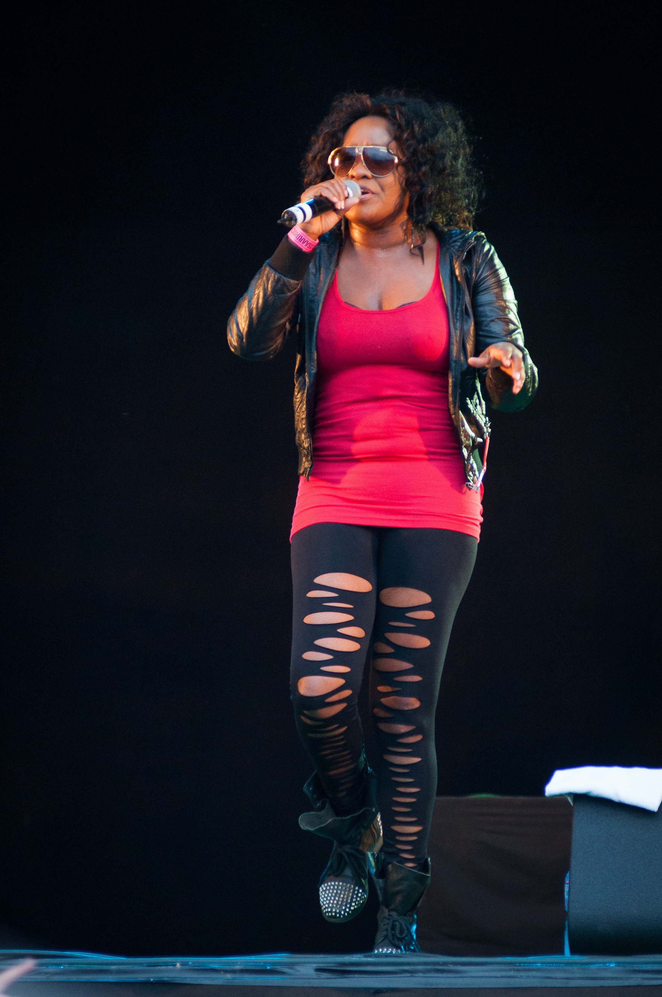 Jamaican vocalist Tanya Stephens performing at the 2012 Ilosaarirock festival in Joensuu, Finland.